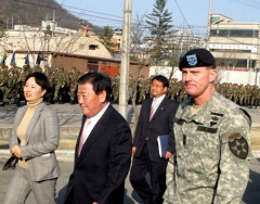 Chunchon Mayor Yu Chong-Su, second from left, and 2nd Infantry Division commander Major General George A. Higgins, right, attended Tuesday's ceremony to close Camp Page.